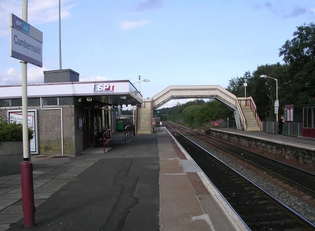 Cumbernauld Railway Station.